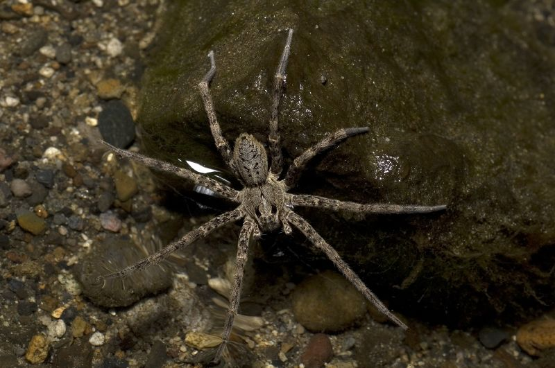 Dolomedes III female Water Spider sitting on the water waiting for prey